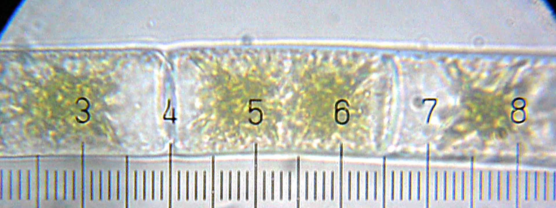 Zygnema Objective = 60× Eyepiece = 15× NumberedTick = 20 µM PixelSize = 0.067 µM